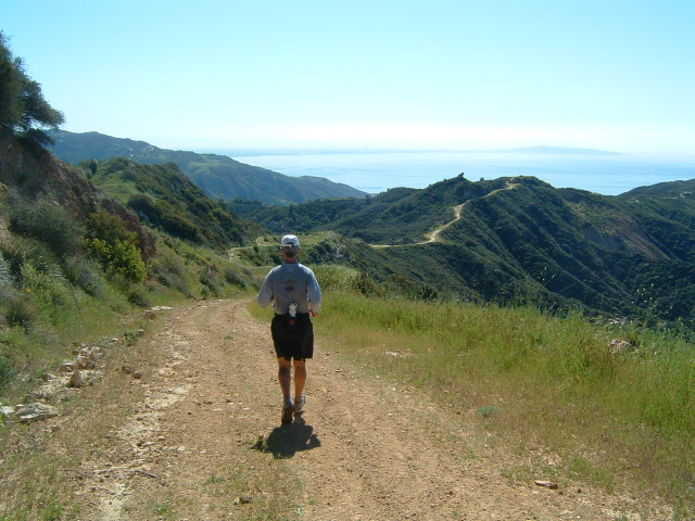 The Backbone Trail and the Santa Monica Mountains — in the Santa Monica Mountains National Recreation Area, Southern California. Photo by Jim Wolff